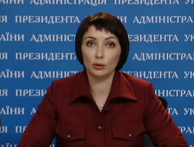 Olena Lukash, Ukrainian politician, former Minister of Justice Ukraine and member of the Ukrainian Verkhovna Rada